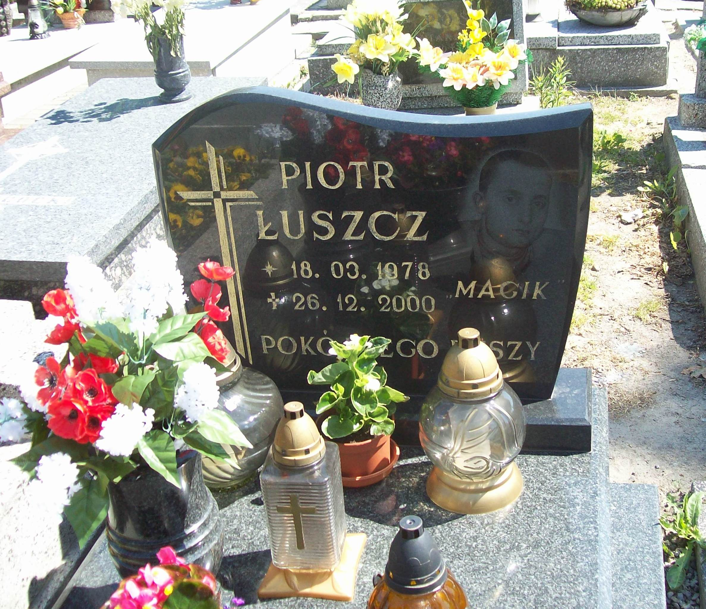 The grave of Piotr "Magik" Łuszcz, Polish rapper.